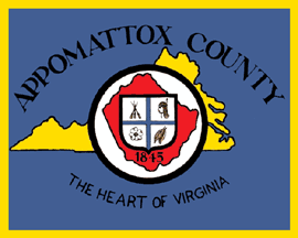 The official county flag of Appomattox County, Virginia.